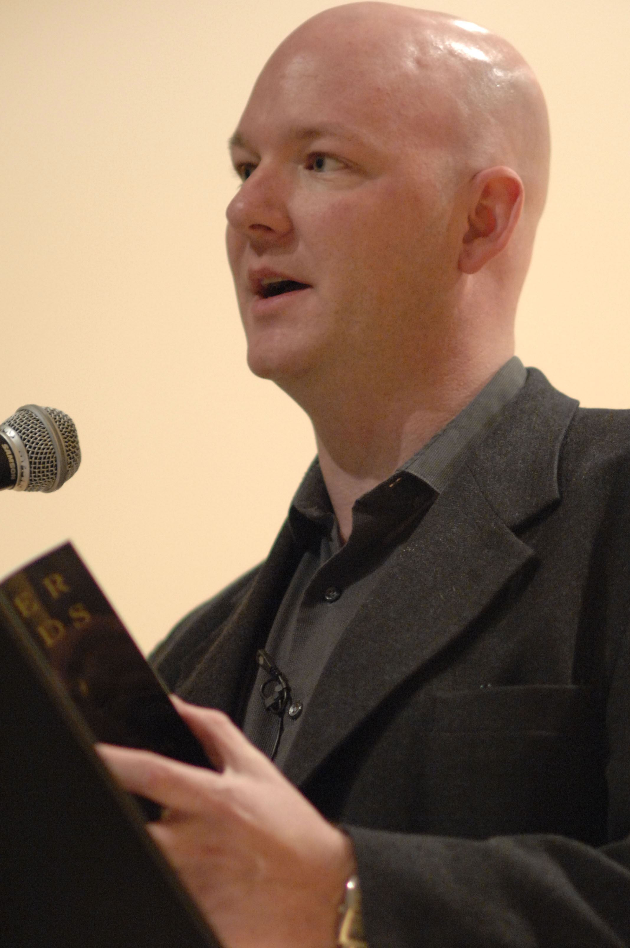 Jake Adam York reading one of his poems, spring 2007.